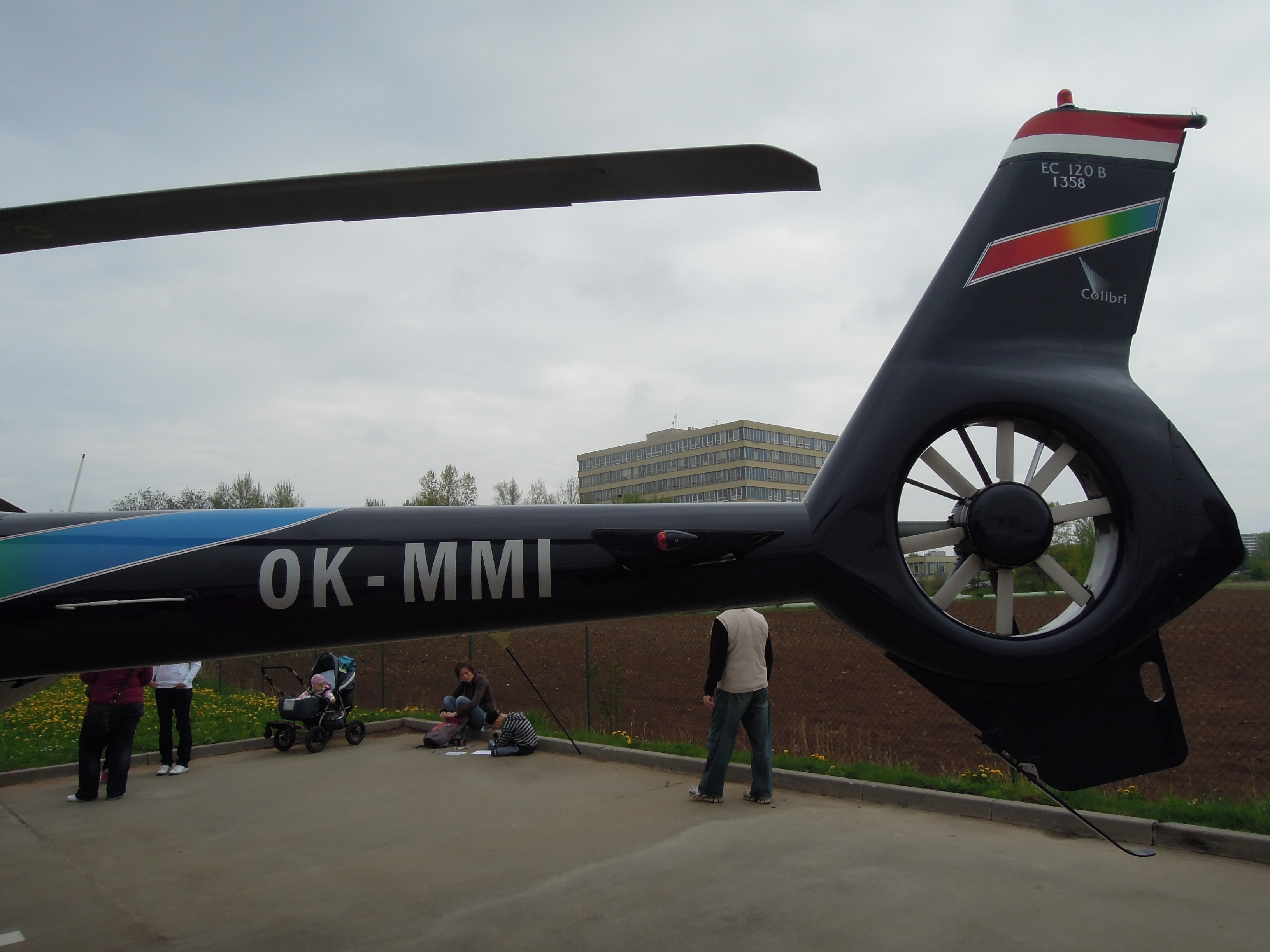 Helicopter Eurocopter EC120 Colibri of DSA company, Czech Republic